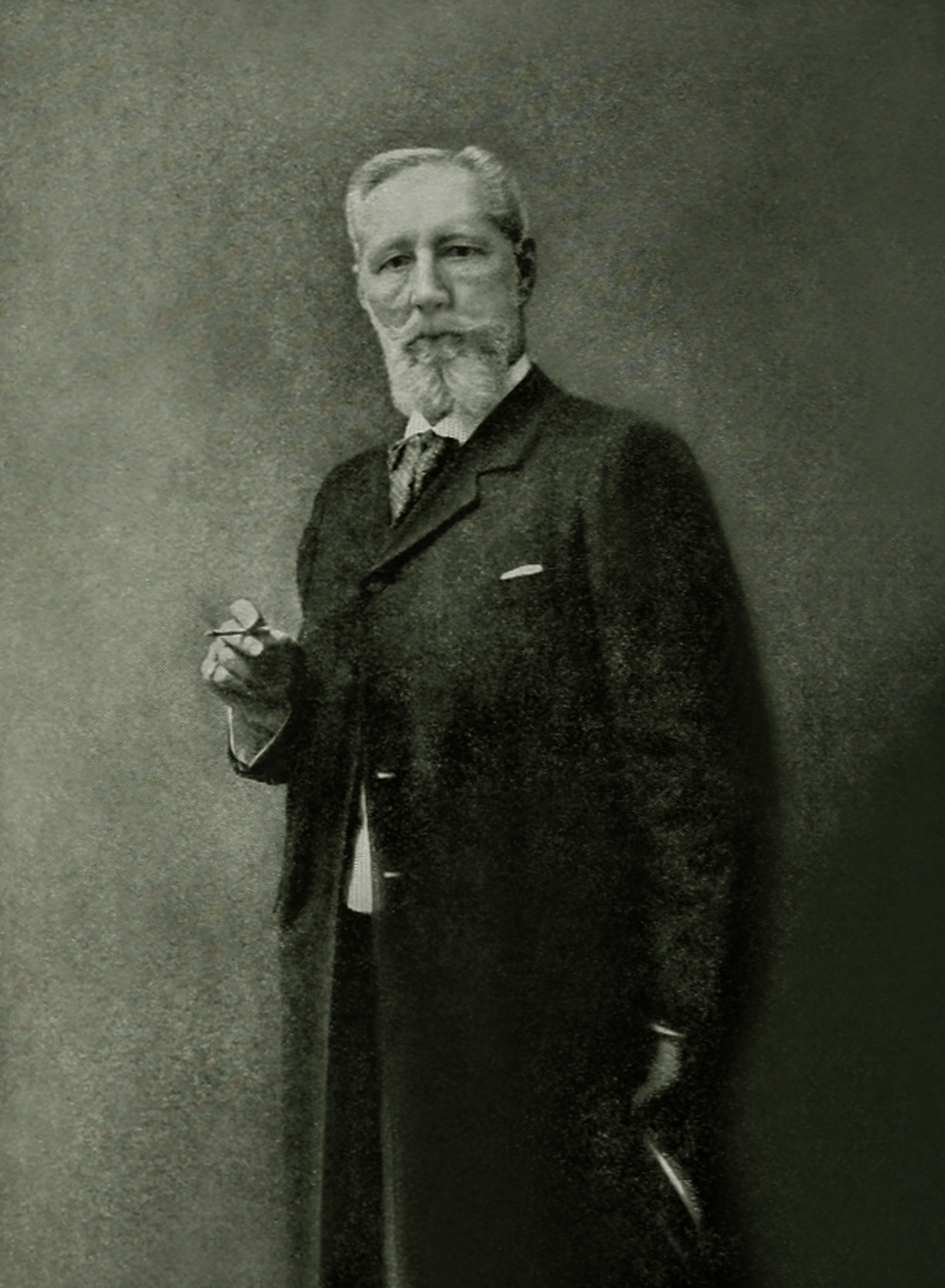 Eugène-Melchior de Vogüé